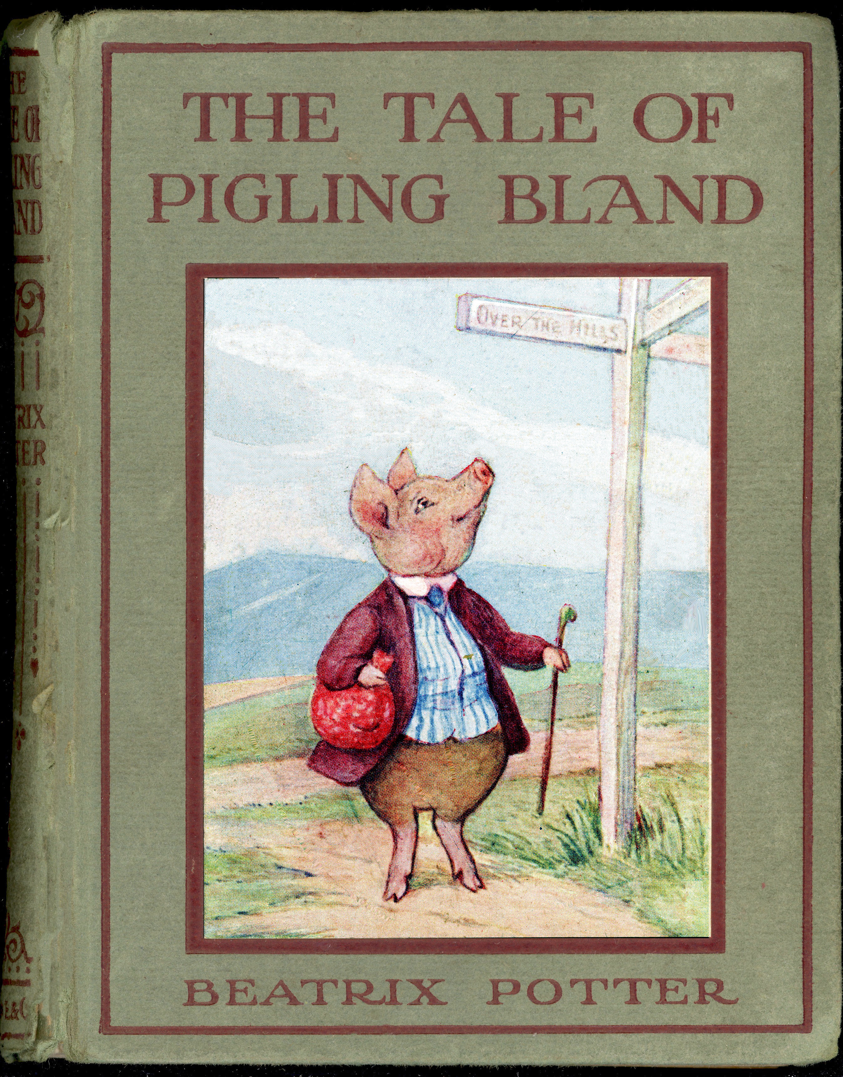 Cover of the 1913 edition of Tale of Pigling Bland. This is the first edition, first print run.